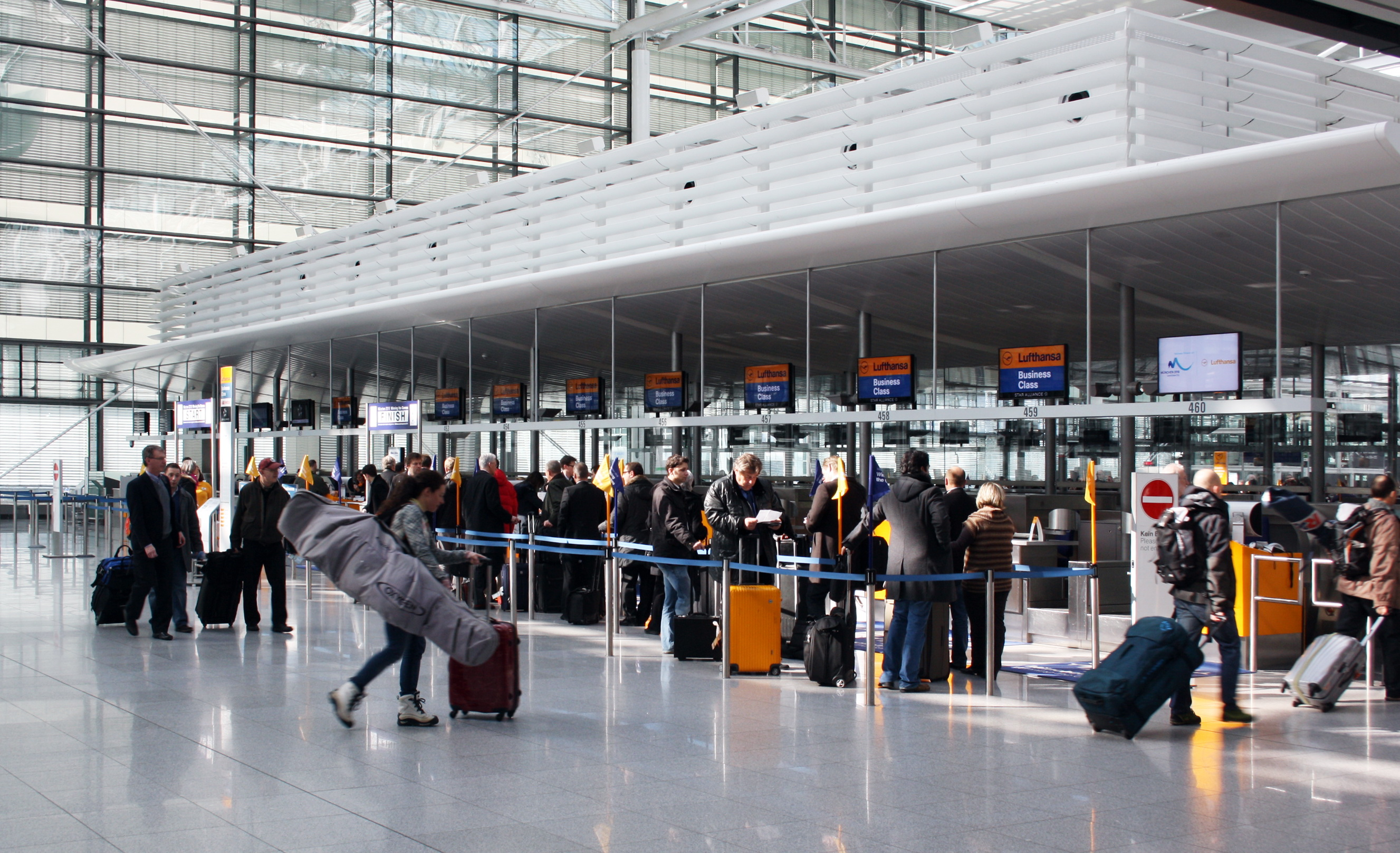 Franz Josef Strauss airport in Munich. Terminal 2 - Check in - Departures